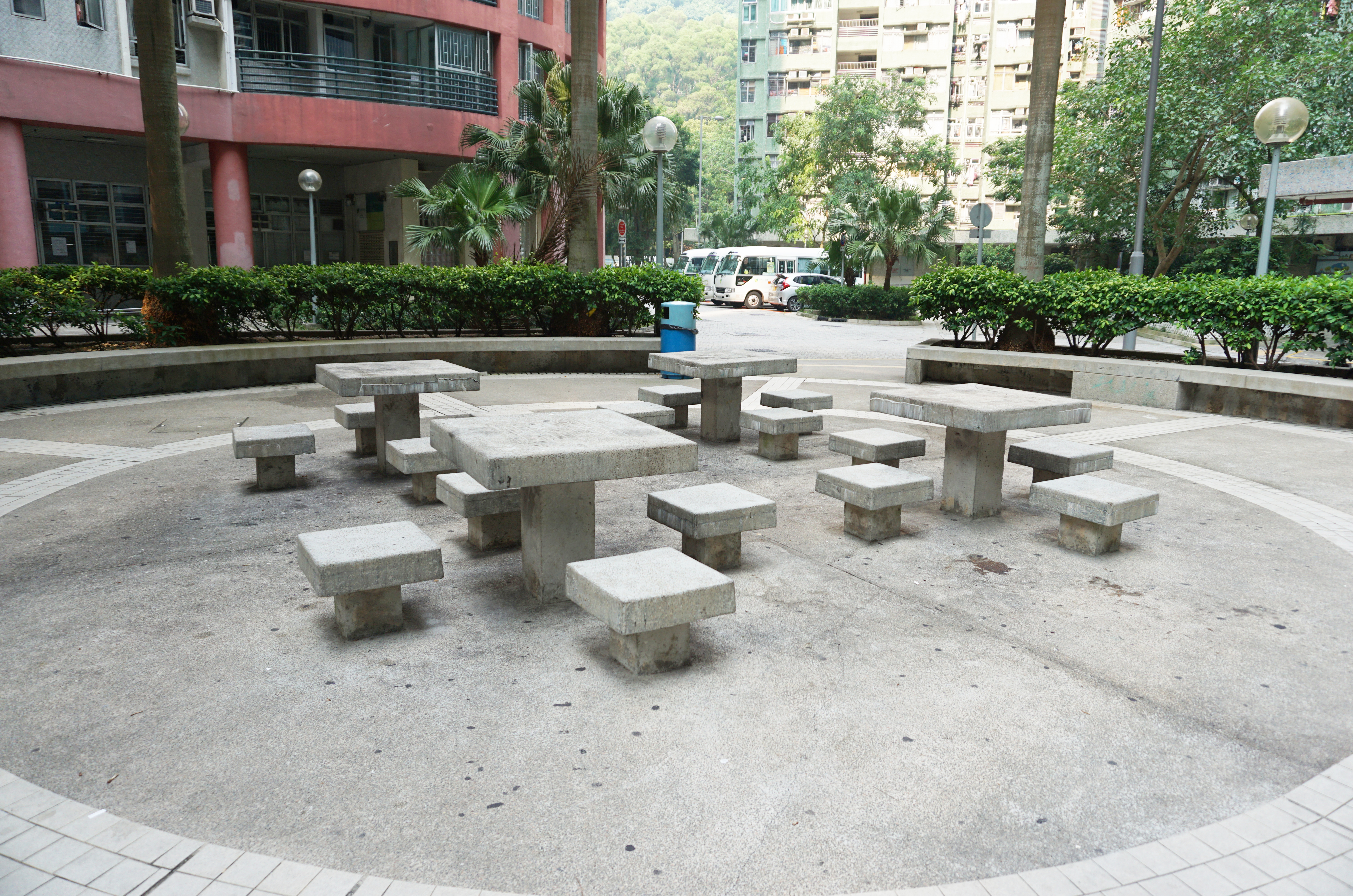 Wah Kwai Estate in Pok Fu Lam, Hong Kong.